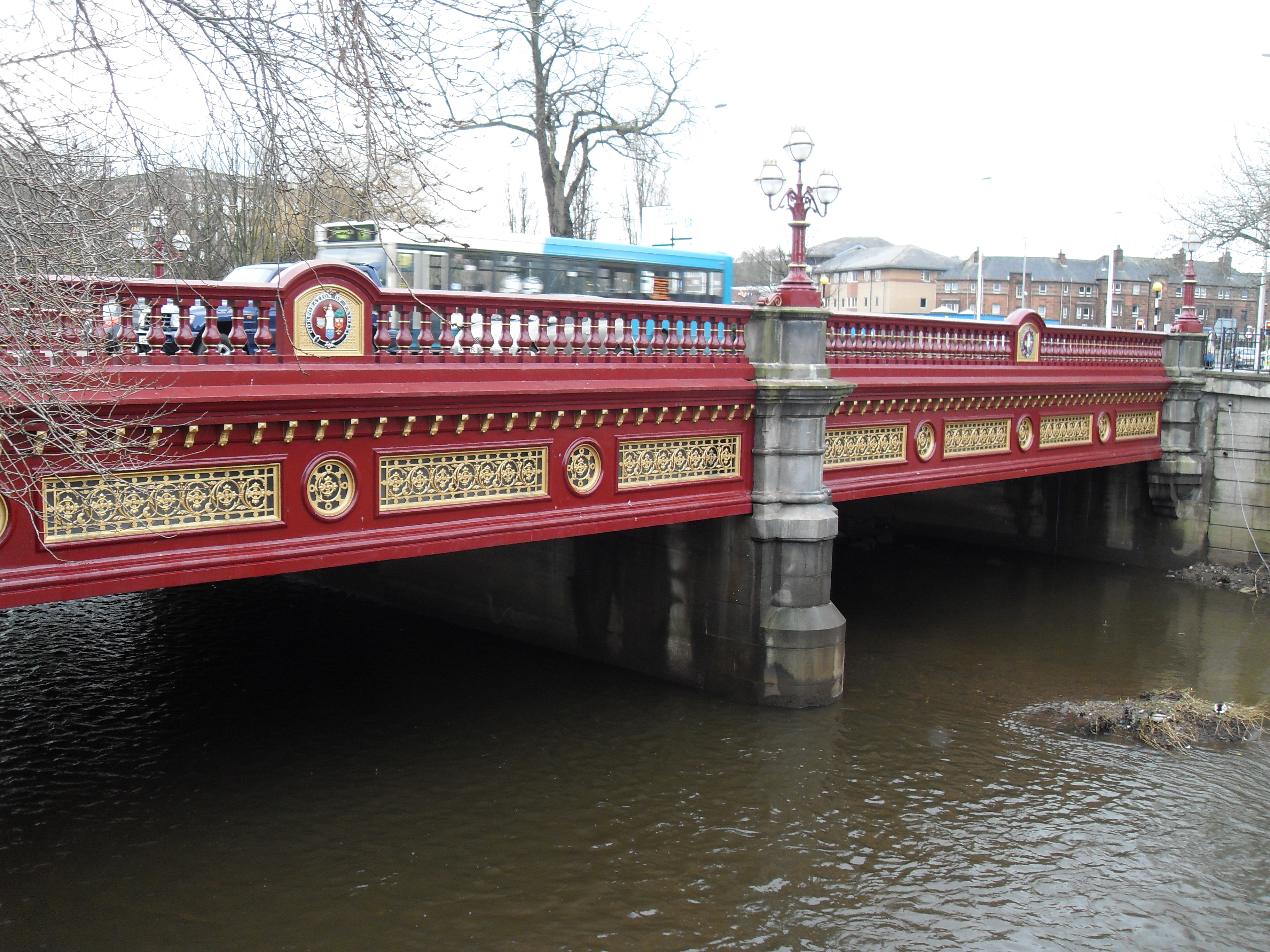 Newly Restored Bridge, Bridge Street, Paisley, Renfrewshire.